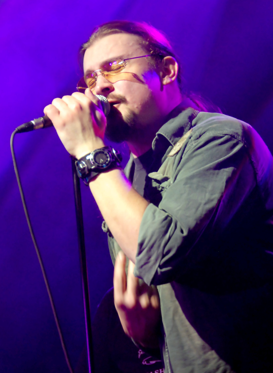 Maciej Balcar, Polish singer, February 2008